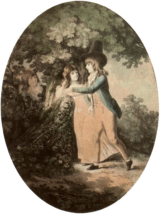 John Lewis Burckhardt (on the left, behind the tree) playing with his elder brother Georg and his junger sister Rosine, presumably at Ernthalde. Watercolour from 1795, painter unknown.